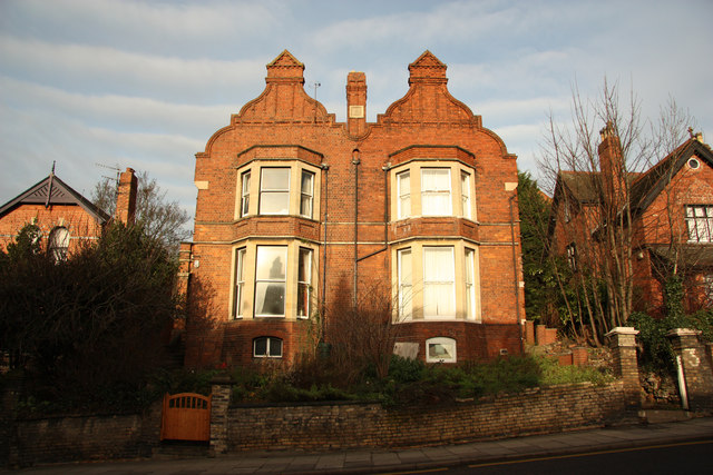 Victorian houses on Lindum Road (2-3) Temple Gardens, designed by the Lincoln architect William Watkins in 1887